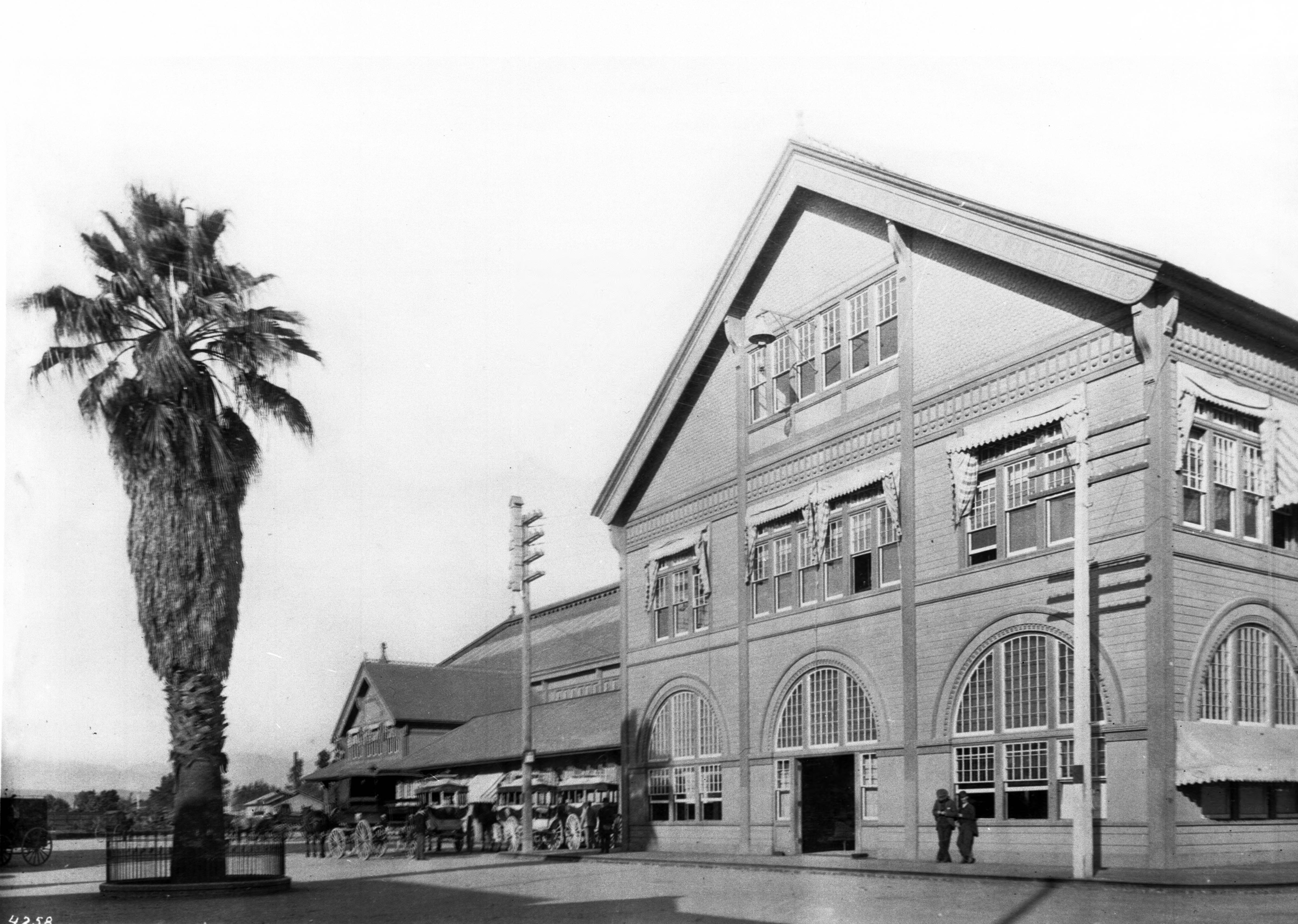 Southern Pacific Arcade Station on Alameda Street between Fourth Street & Sixth Street, ca.1895-1900 Photograph of an exterior view of the Southern Pacific Arcade Station, Alameda Street (526 Central? Avenue), between Fourth Street and Sixth Street, ca.1895-1900. Several carriages are parked in front of the three-story wooden building. A large palm tree stands at left. This is the location of William Wolfskill's orange orchard.